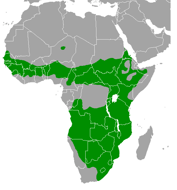 Numida meleagris range map